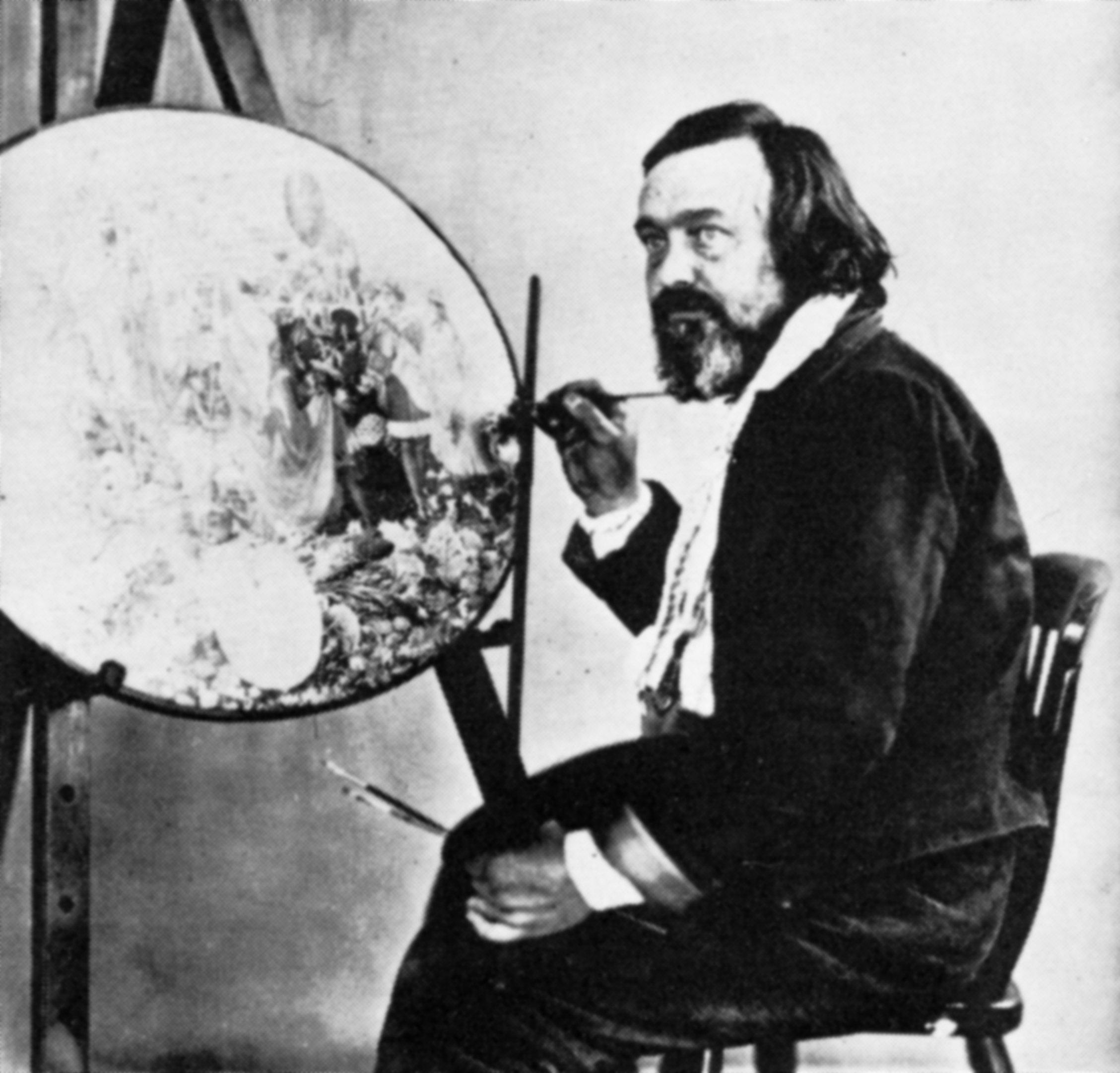 Portrait of British painter Richard Dadd (1817-1886) showing painting Contradiction: Oberon and Titania.; photograph